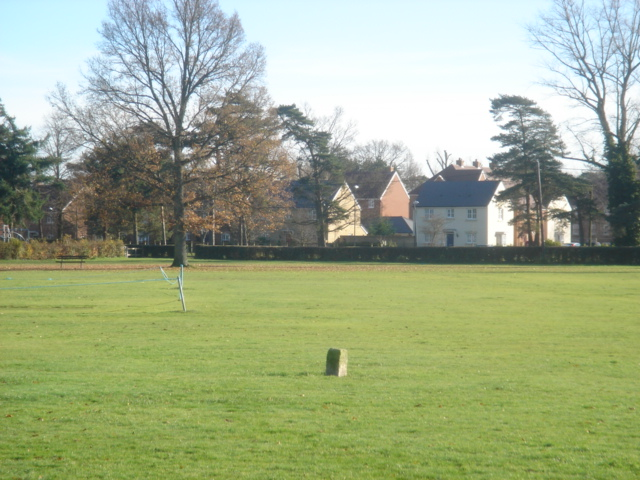 The village green at Ifield, Borough of Crawley, West Sussex, England. Part of the Ifield Village conservation area. A 19th-century boundary stone is in the middle of the picture.